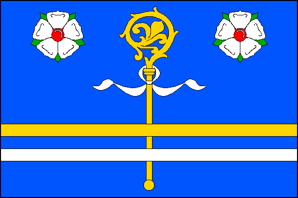 Municipal flag of Vážany village, Blansko District, Czech Republic.